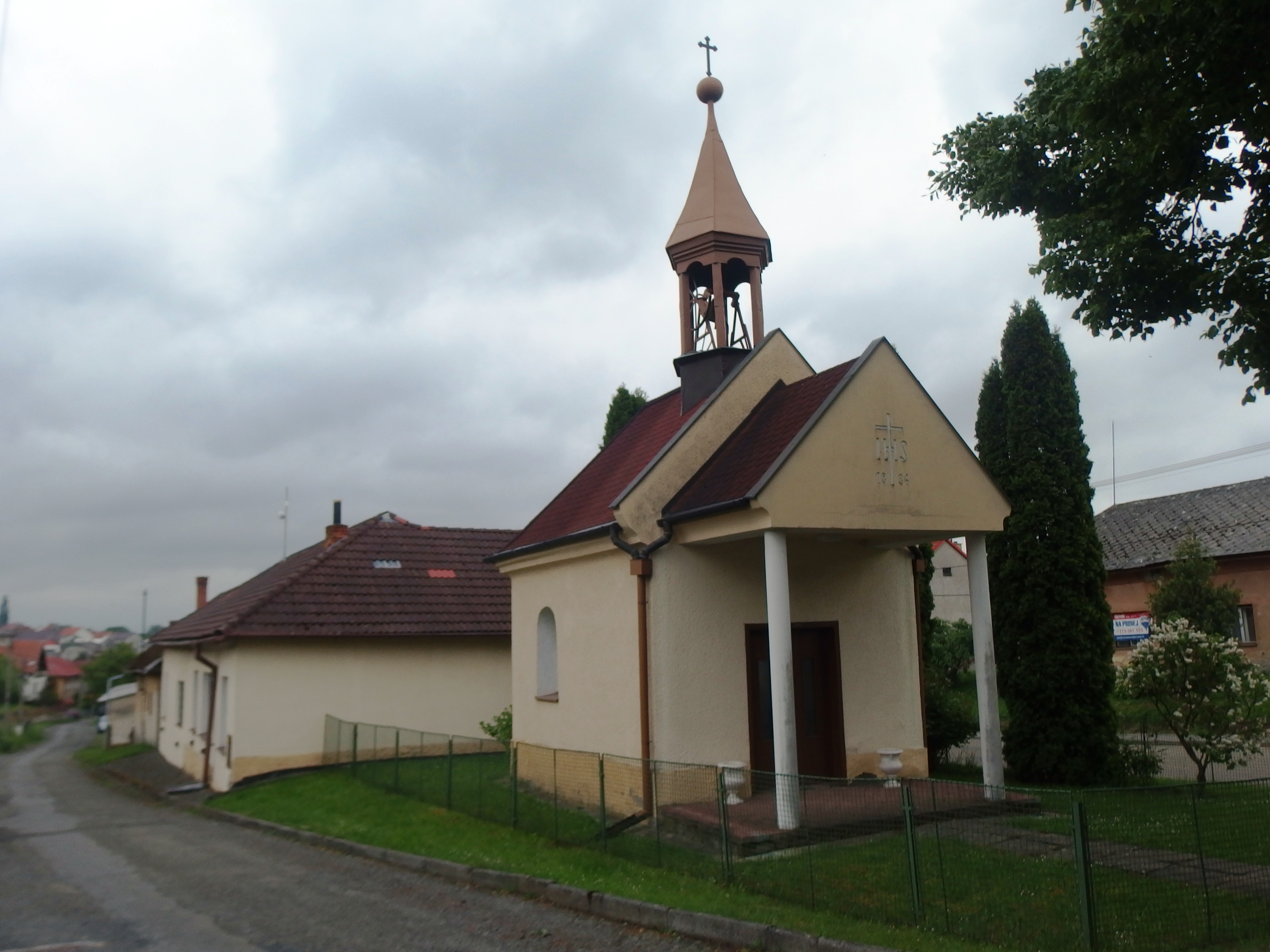 Lhota, Přerov District, Czech Republic.